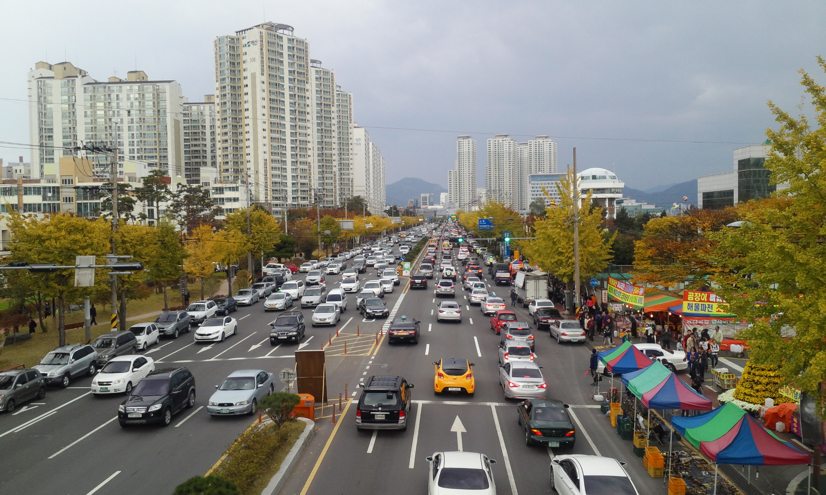 Haeandaero Ave. in Changwon, South Korea on November 2nd, 2014